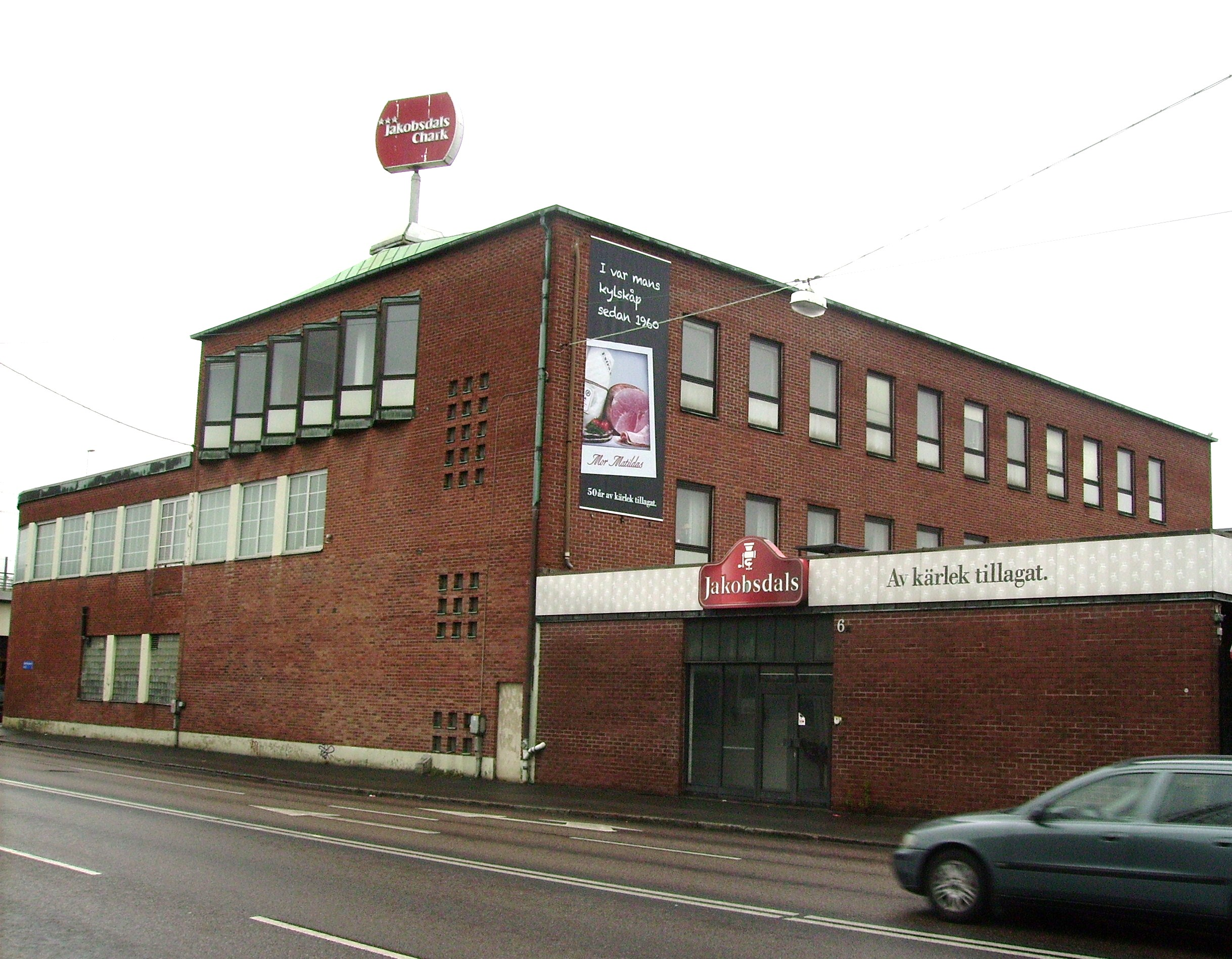 Picture of factory in Göteborg, Jakobsdals chark